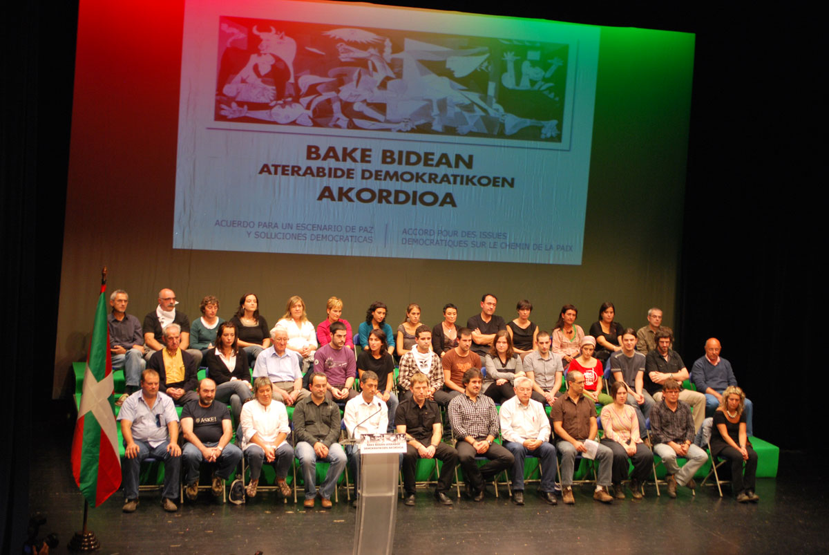 Image of the presentation of Bake Bidean, in Gernika, Biscay, Basque Country.